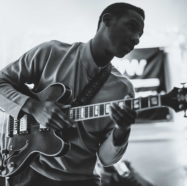 Singer-songwriter Leon Bridges